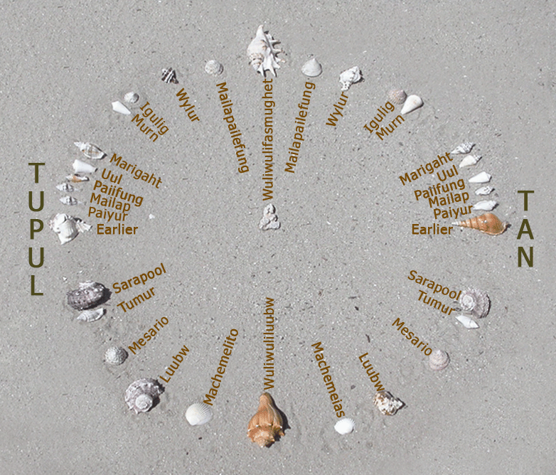 A photograph of a recreation of the star compass of Mau Piailug depicted with shells on sand, with Satawalese (See Trukic languages) text labels, as described by the Polynesian Voyaging Society. Original archived by Webcite. Shown here north-up.